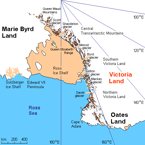 Map of Victoria Land (rough), East Antarctica, own work composed from various mapreferences